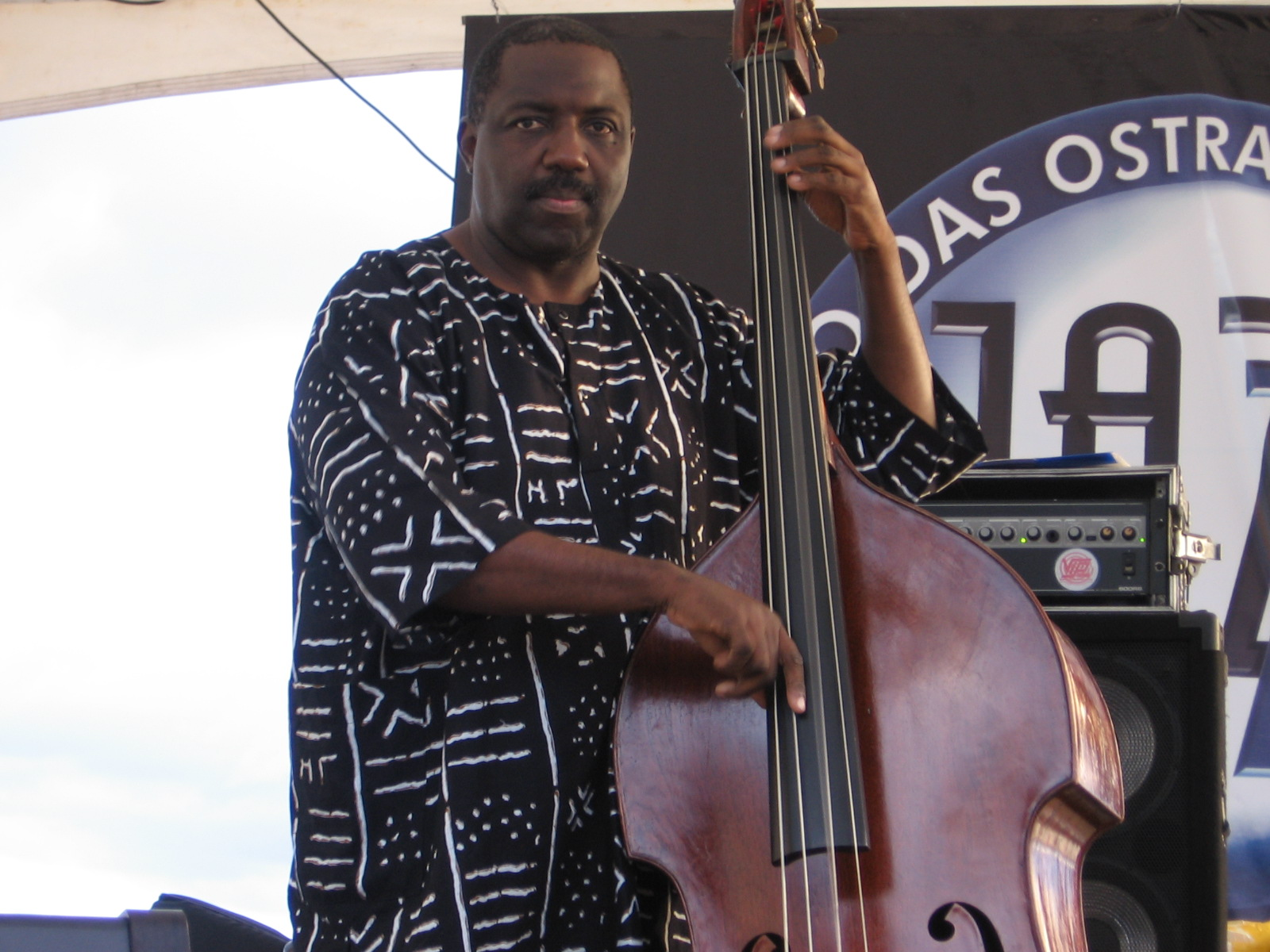 Clarence Seay by bethbar5